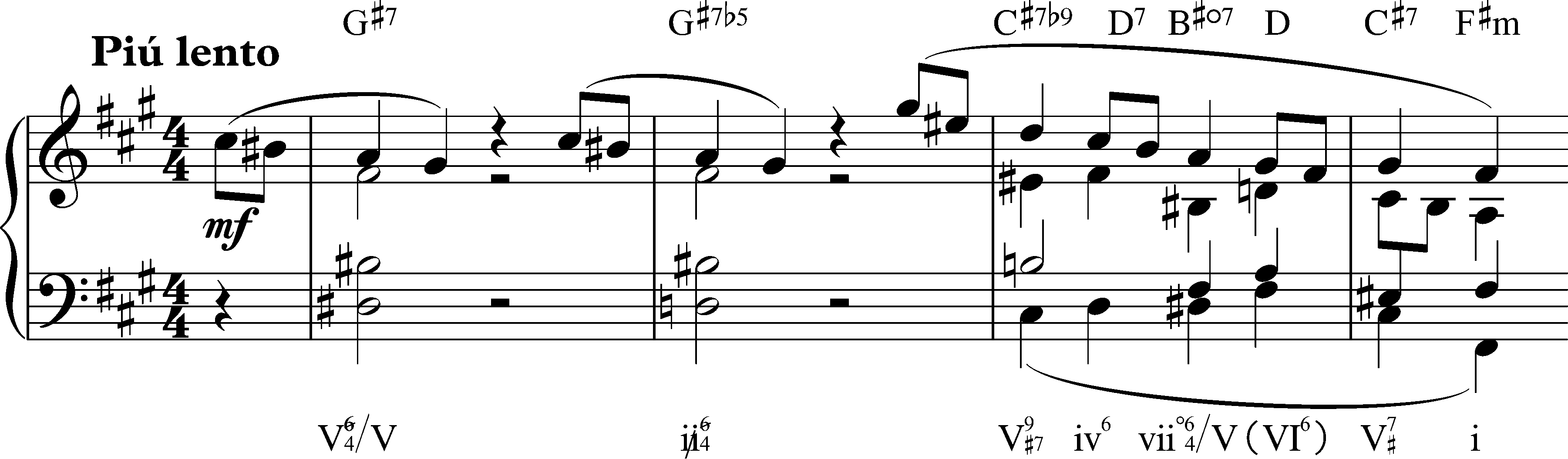 "Chromatic analysis" of measures 5-9 of César Franck's Variations Symphoniques (1885). Roman numeral analysis by Cooper, Paul (1975). Perspectives in Music Theory, p.216. New York: Dodd, Mead, and Company. ISBN 0-396-06752-2.